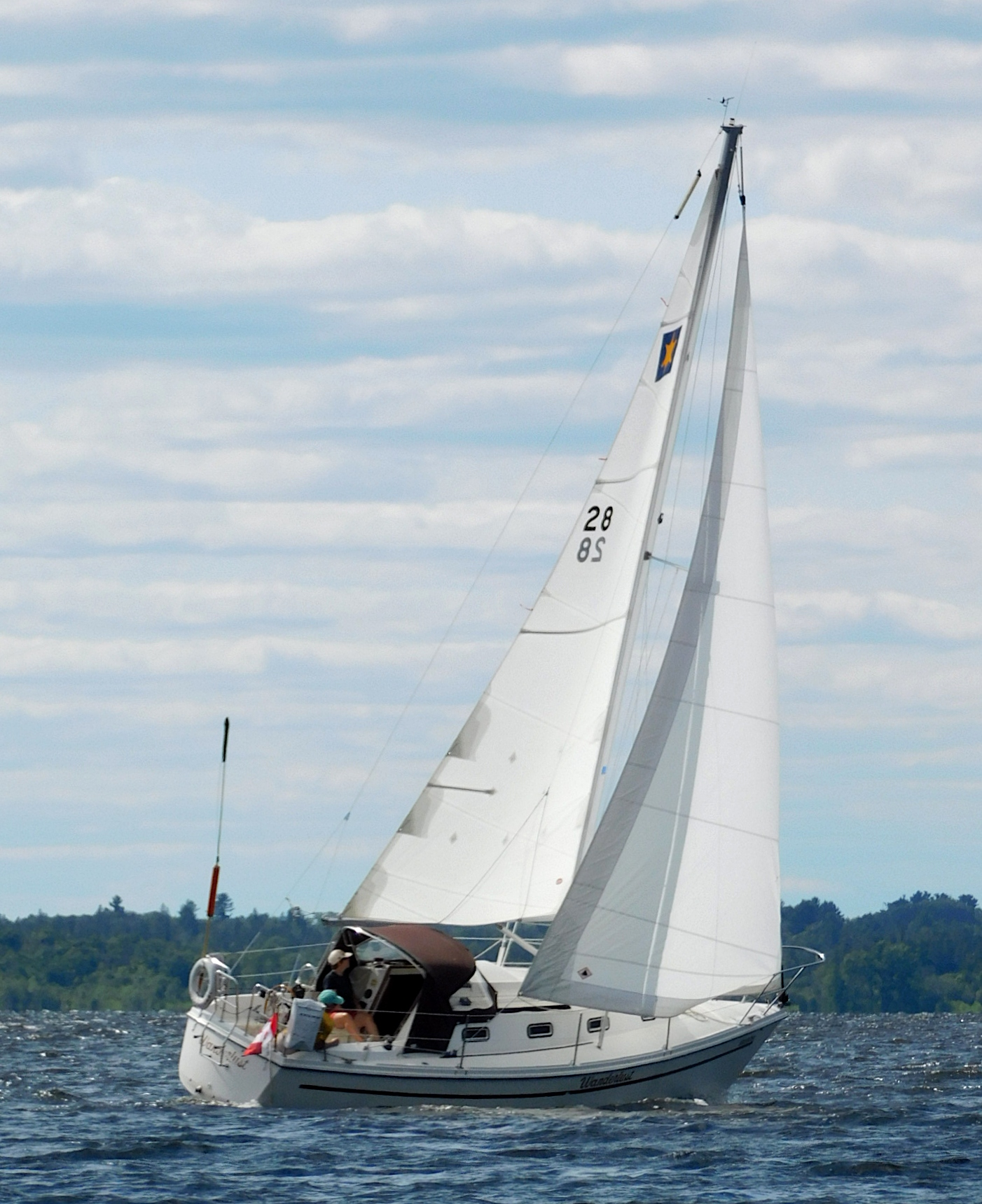 A Sirius 28 sailboat named Wanderlust.